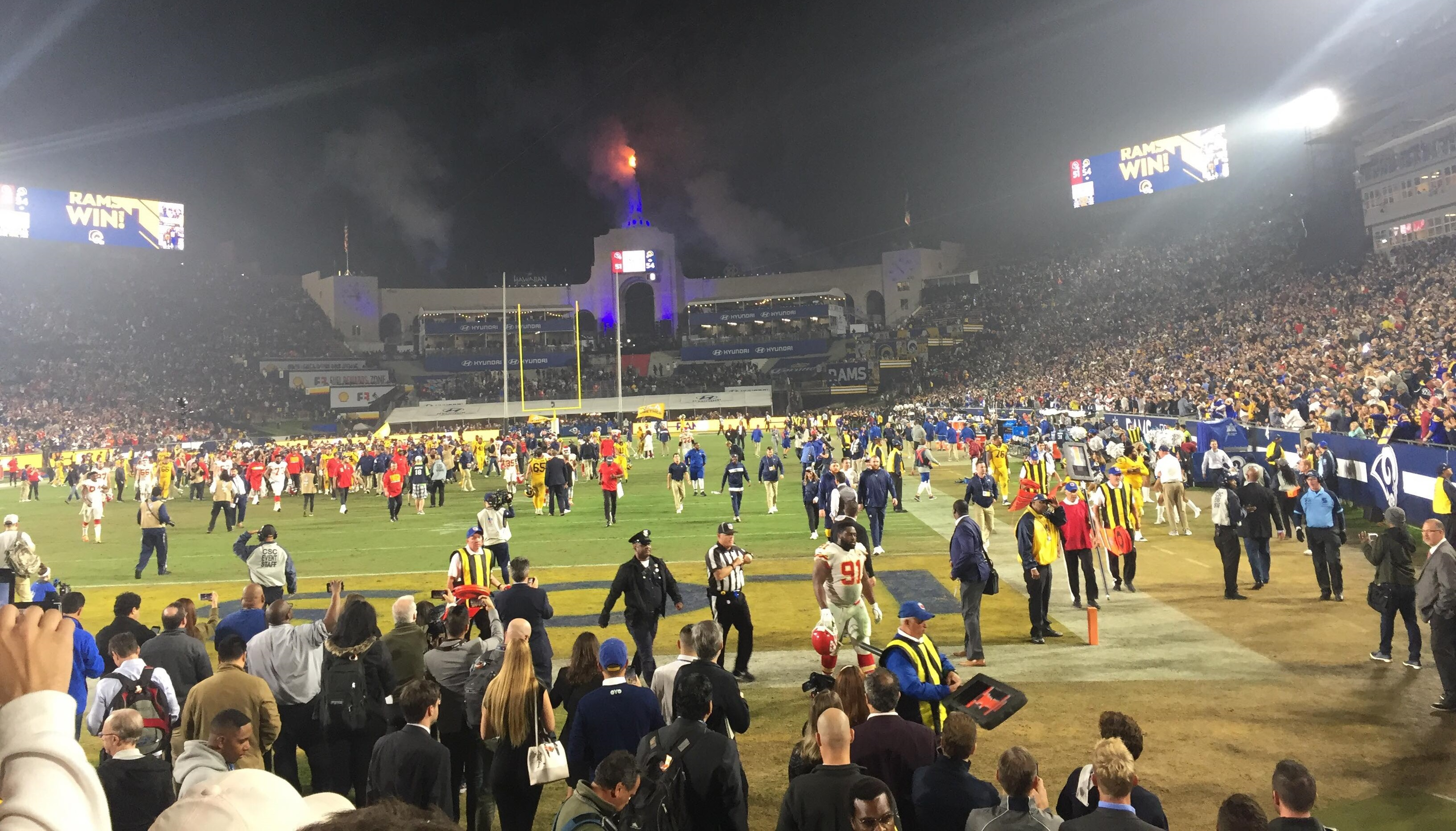 The Los Angeles Memorial Coliseum immediately following the Los Angeles Rams' 54-51 victory over the Kansas City Chiefs on Monday Night Football.